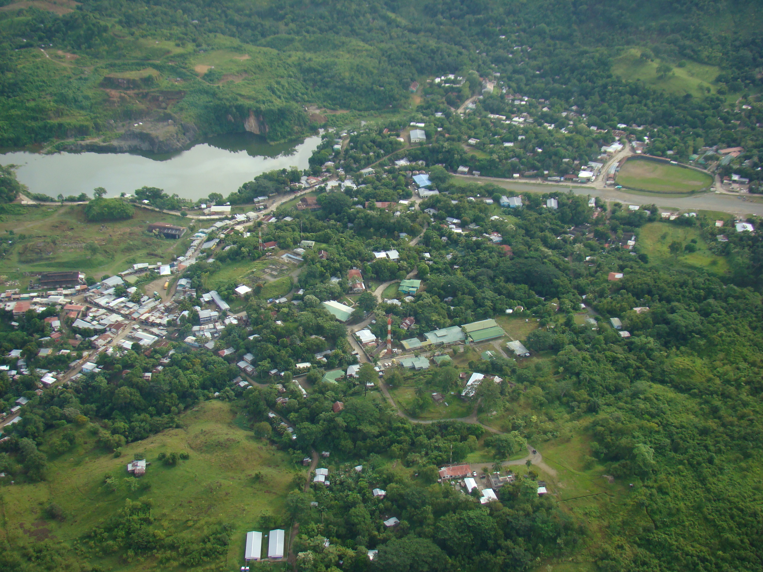 Aerial view of Siuna today (08:21, 20 October 2008).